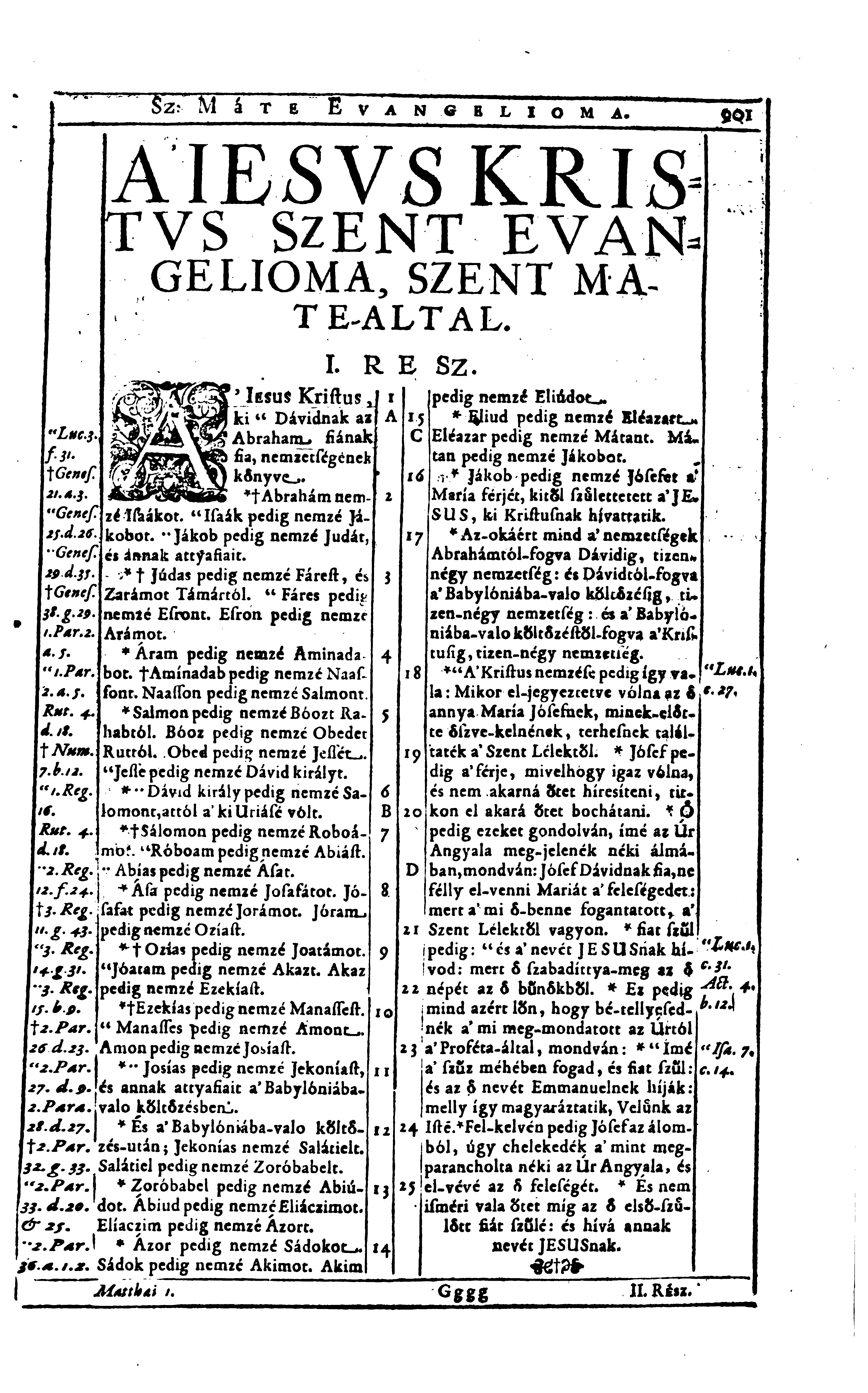 Gospel of Matthew